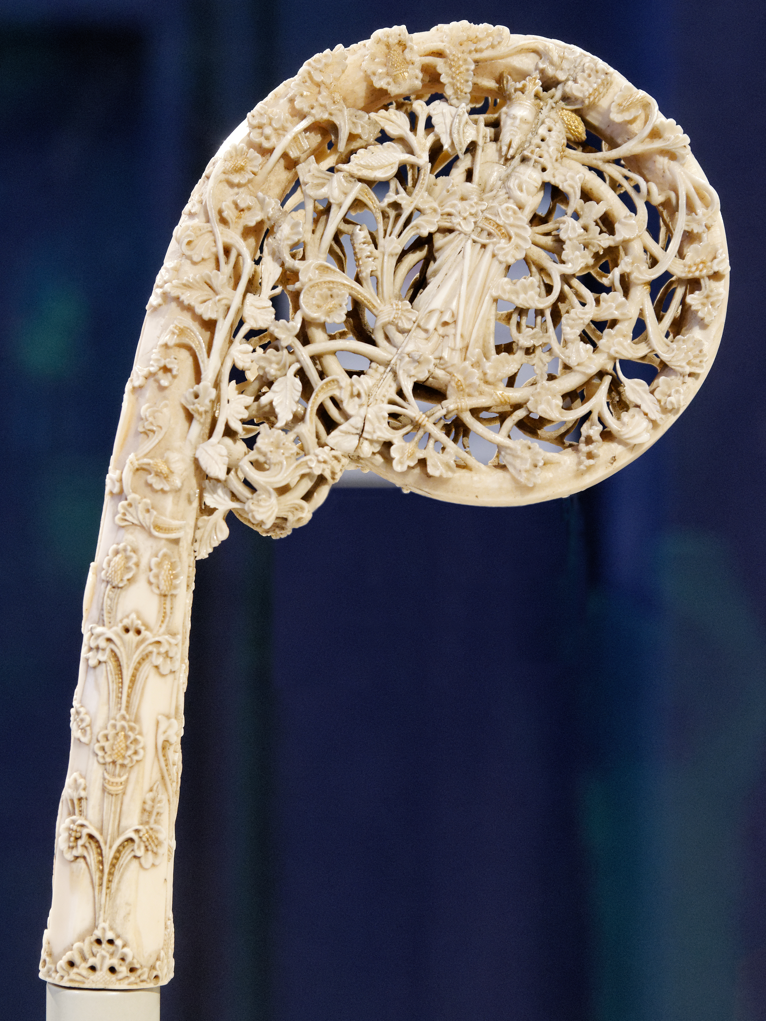 Crosier with St Olav and another figure (probably St Augustine) entwined in foliage, Norwegian artwork.